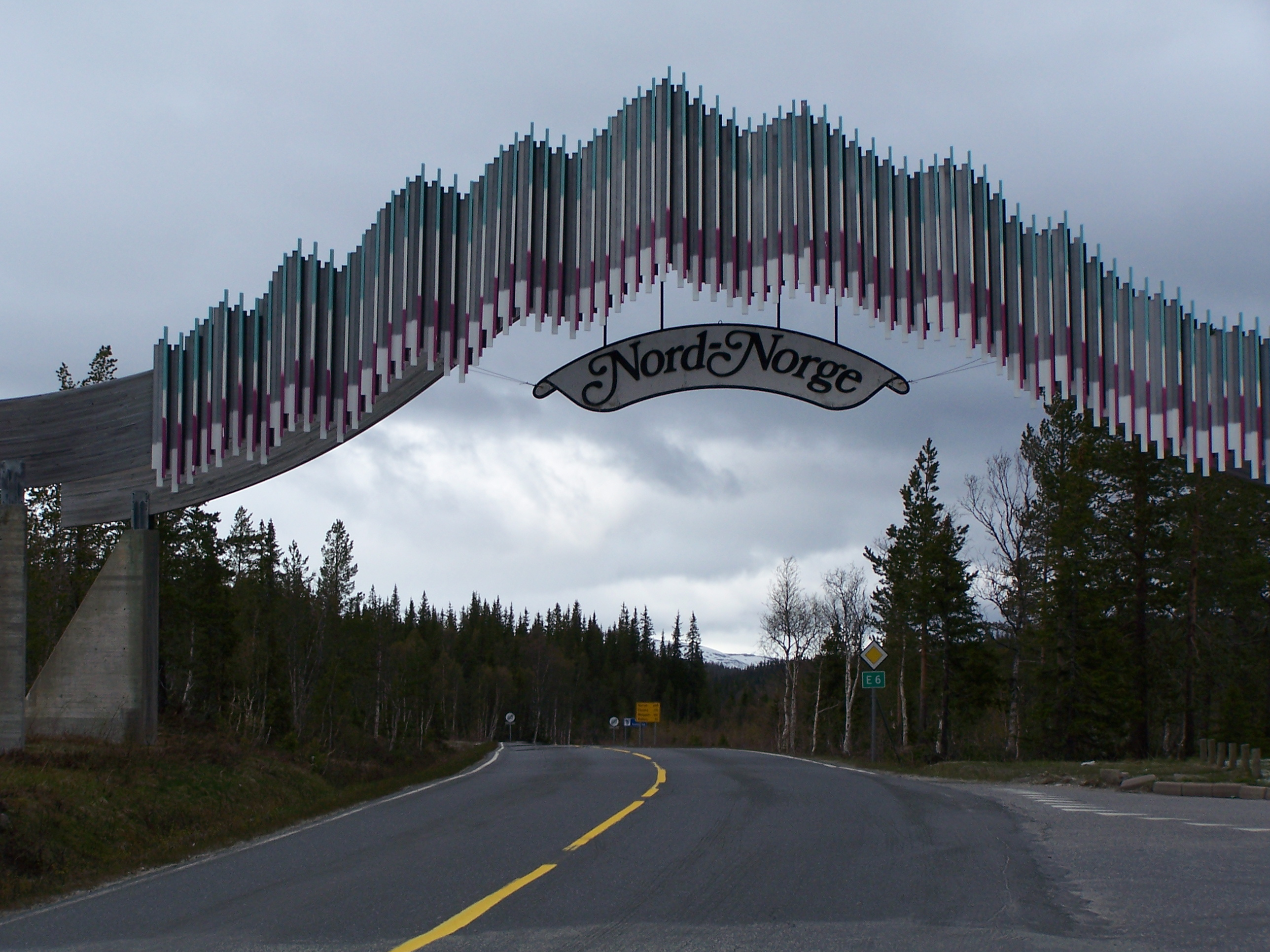 E6 at the border of Nord-Trøndelag and Nordland, Norway